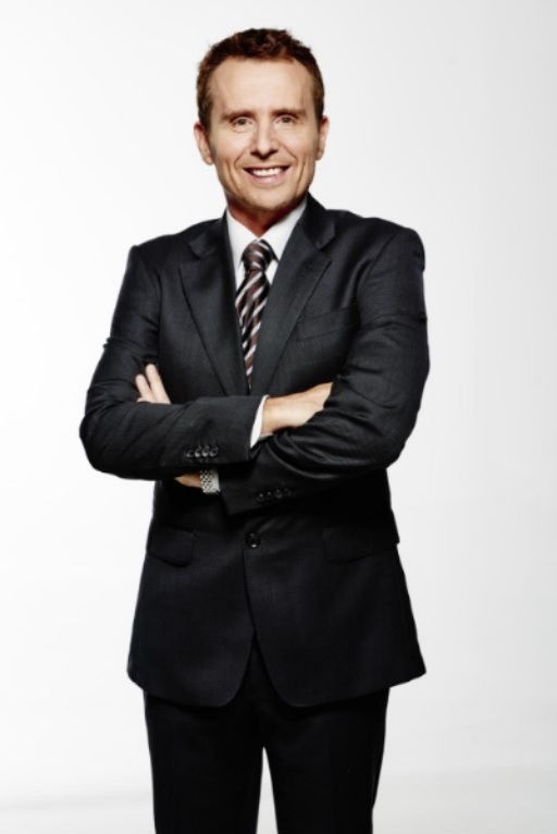 Host Jason Dasey